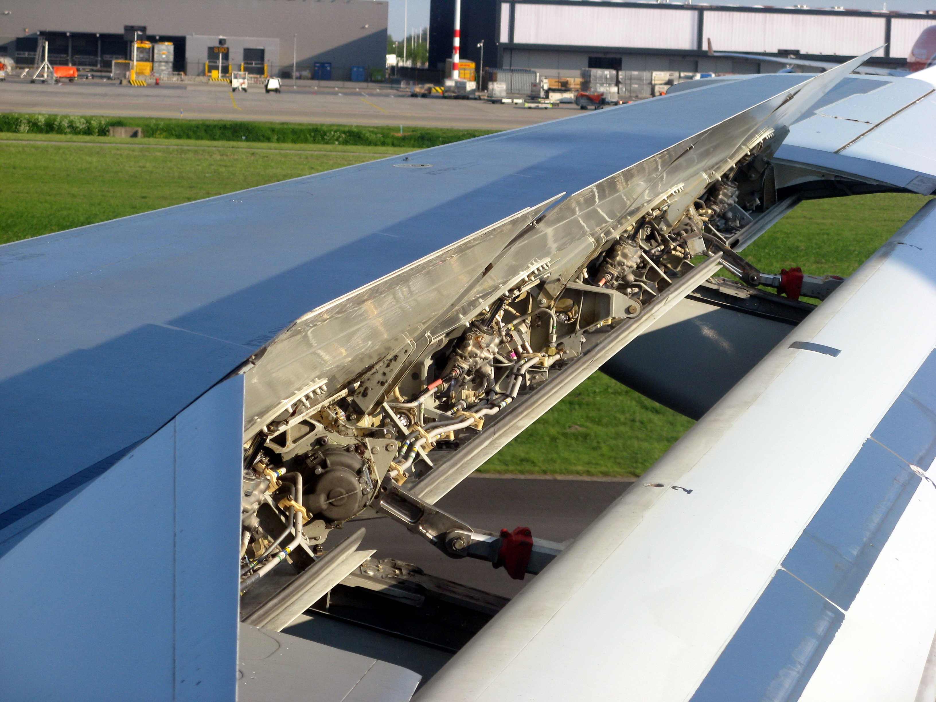 Spoilers (also called lift dumpers) of an A320 aircraft seen deployed.